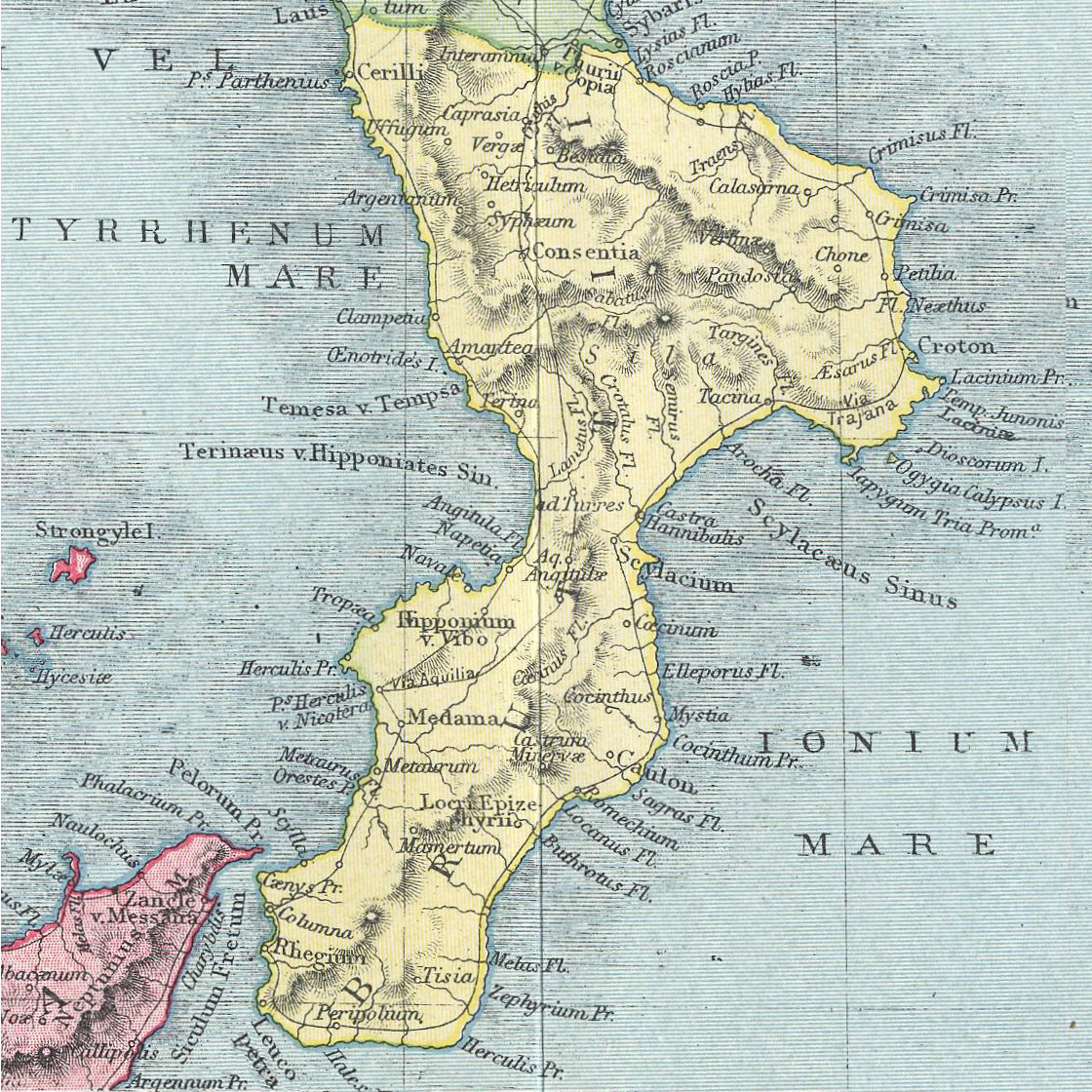 Calabria, part of the Atlas of Ancient and Classical Geography by Samuel Butler